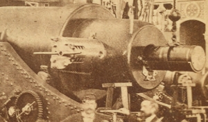 Closeup showing sliding block breech of a large Krupp gun. At the Centennial Exhibition, Philadelphia , 1876.